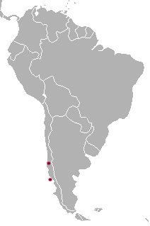 Darwin's Fox range with colonial borders